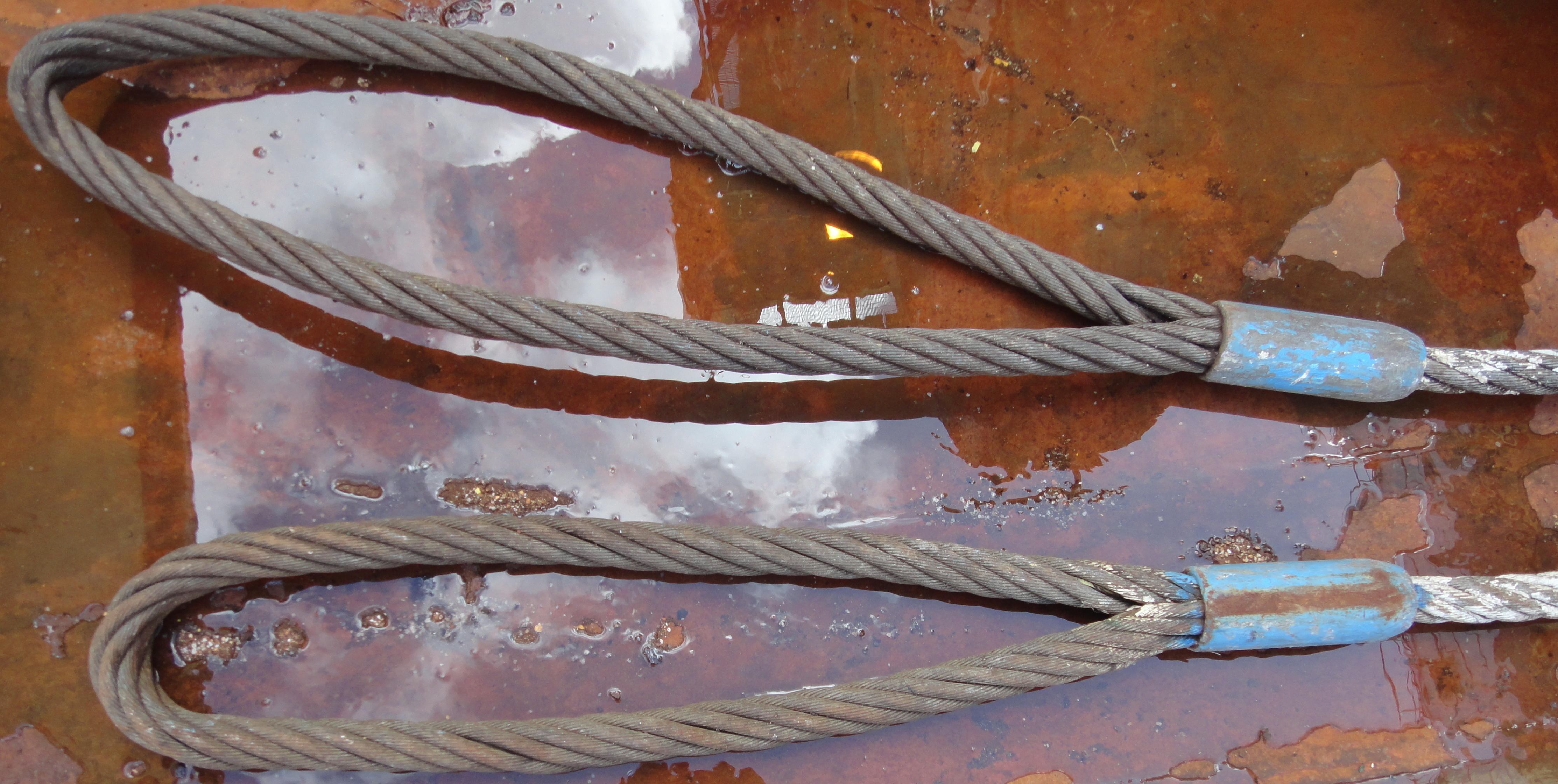 Superloops with blue color code